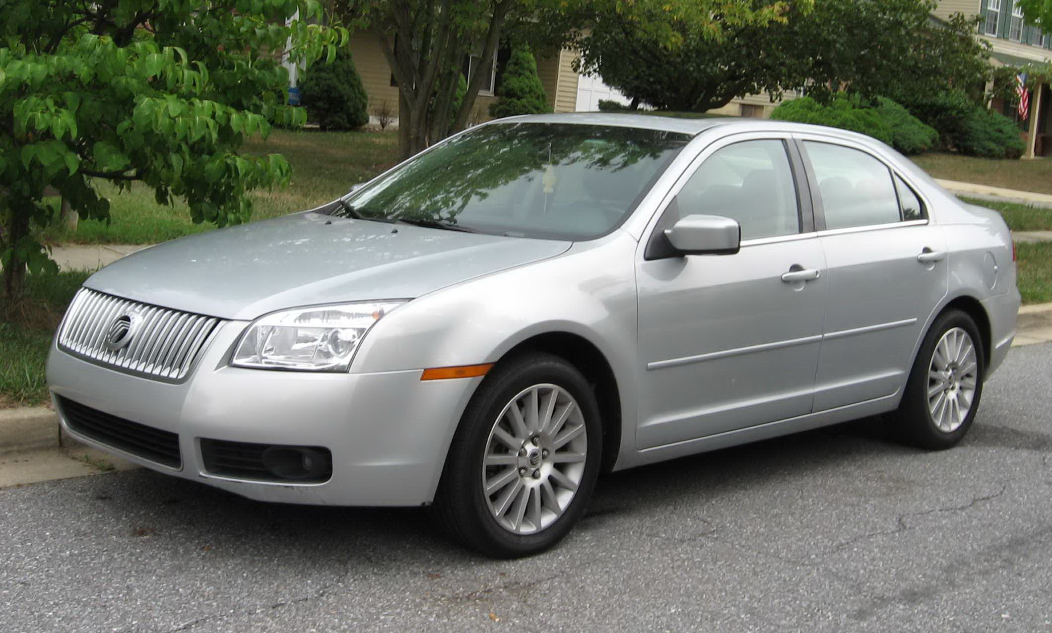 2006-2008 Mercury Milan photographed in USA.